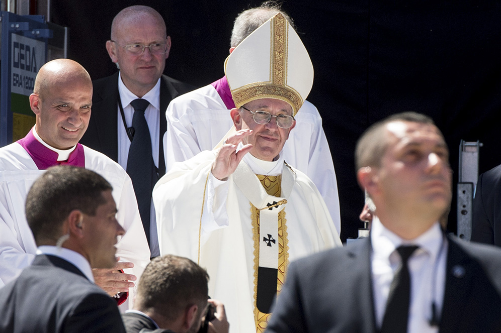 31.07.2016, Brzegi | Udział premier Beaty Szydło w Mszy Świętej Światowych Dni Młodzieży. Fot. P. Tracz / KPRM